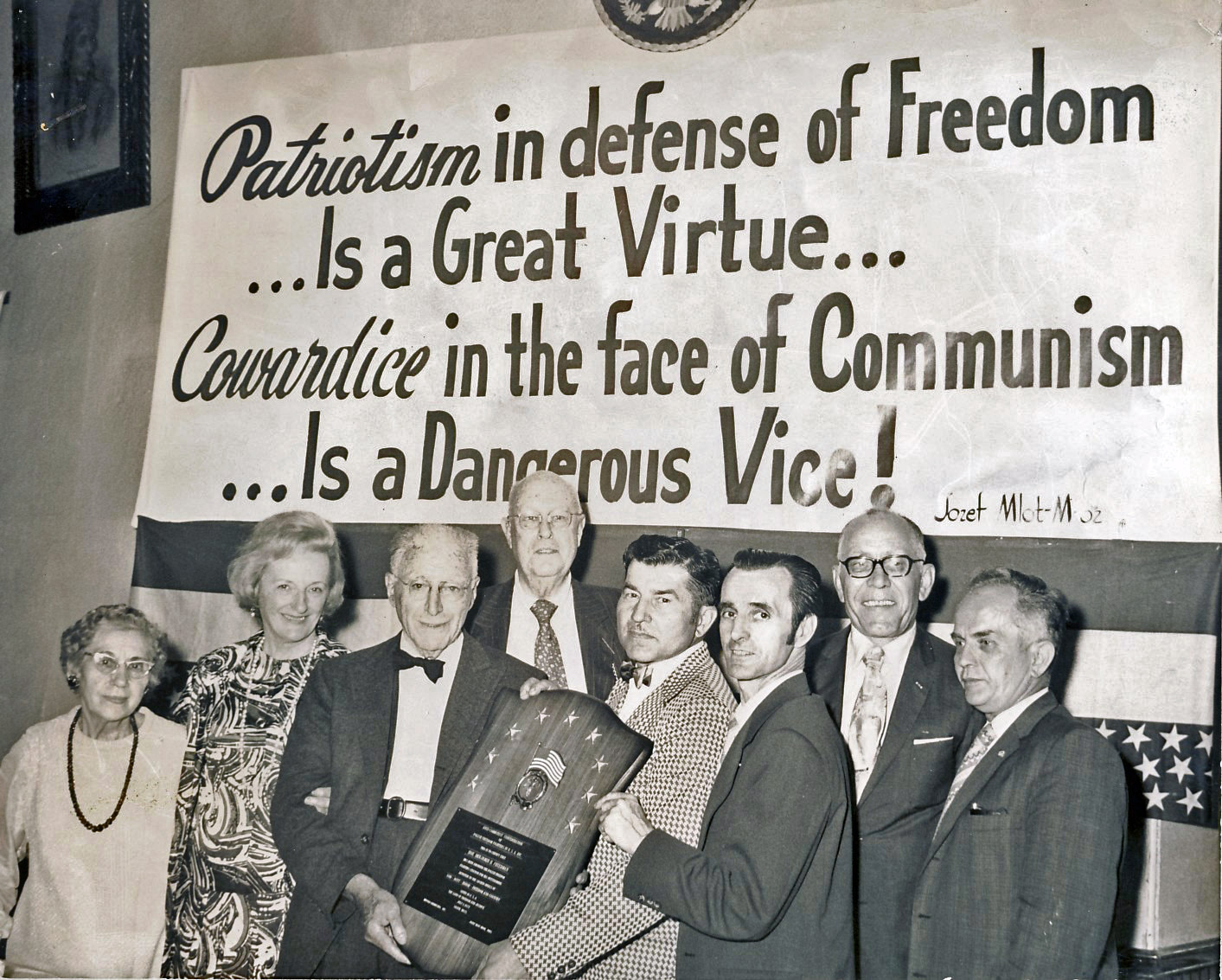 Picture showing Benjamin Harrison Freedman, Jewish-American anti-communist author, receiving the Service Award of the Anti-Communist Federation of Polish Freedom Fighters in 1972, at the age of 82 years old (born 1890). U.S. Senator Thomas J. Dodd had been awarded the same award in 1960 already, as had Mordechai Levym several years after this photograph was made. Anthony Hmura and other Ukrainians and Polish emigrés to the United States also depicted. Mrs Rose Miryam Schoendorf, the wife of Benjamin Freedman, at the far left. Per Wikipedia caption: Benjamin H. Freedman at the age of 82, center (third from left) with bow tie, receiving the Service award from the Anti-Communist Federation of Polish Freedom Fighters in Salem, Massachusetts, 1972. Freedman's wife, Rose Schoendorf, depicted at the far left.